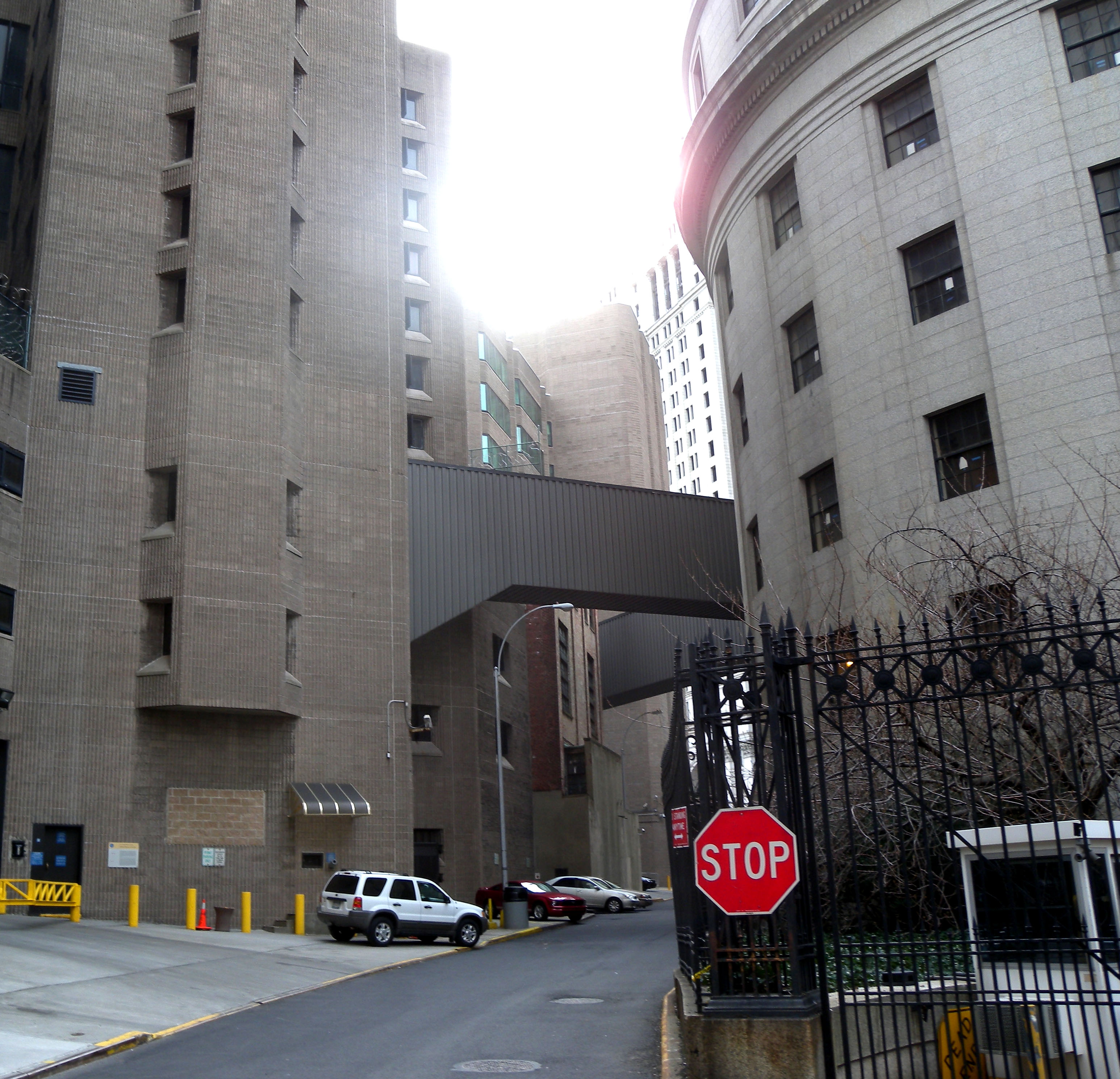 Looking west along Cardinal Hayes Place, at elevated walkways between Thurgood Marshall U.S. Courthouse on right, and Metropolitan Correctional Center, New York City on left on a cloudy afternoon.